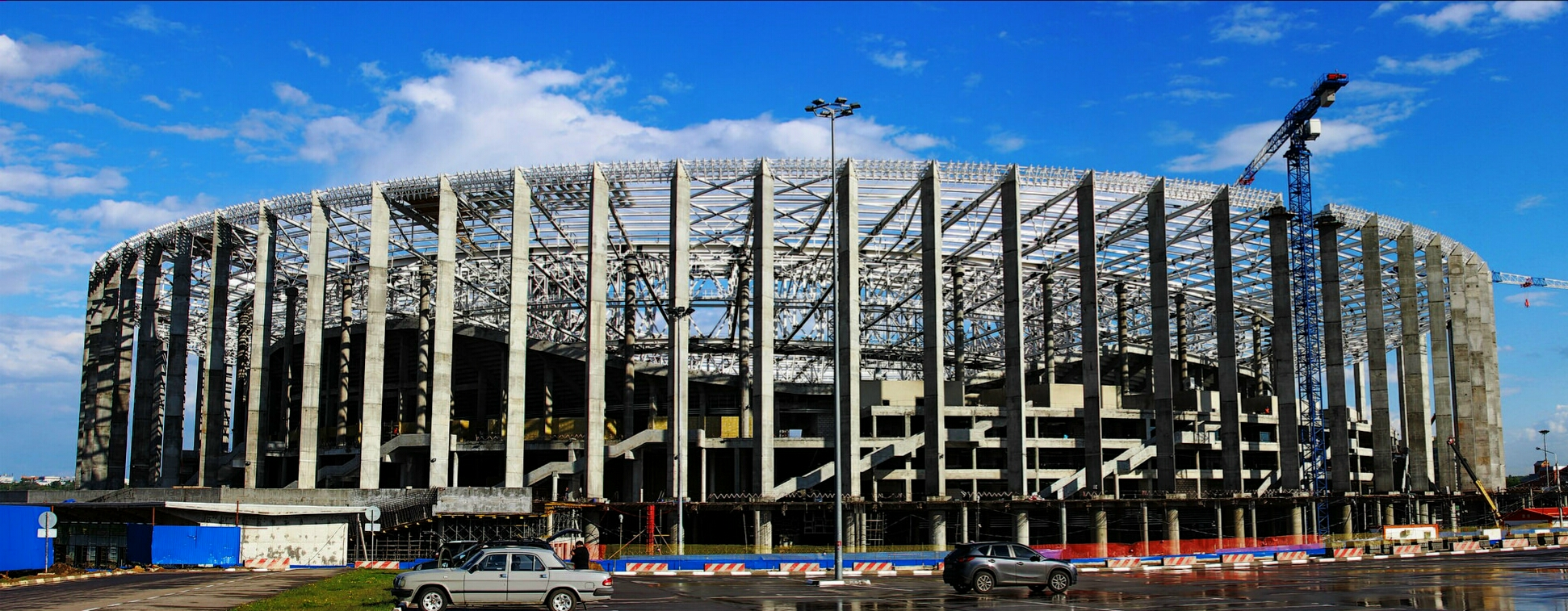 New football arena in Nizhny Novgorod, under construction, for World cup 2018 in Russia